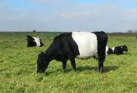 Grazing Dutch Belted cow in pasture